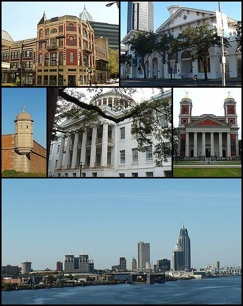 Montage of buildings in Mobile, Alabama. Top to bottom: Pincus Building, Old City Hall and Southern Market, Fort Condé, Barton Academy, Cathedral of the Immaculate Conception, and the skyline of mobile from the Mobile River.